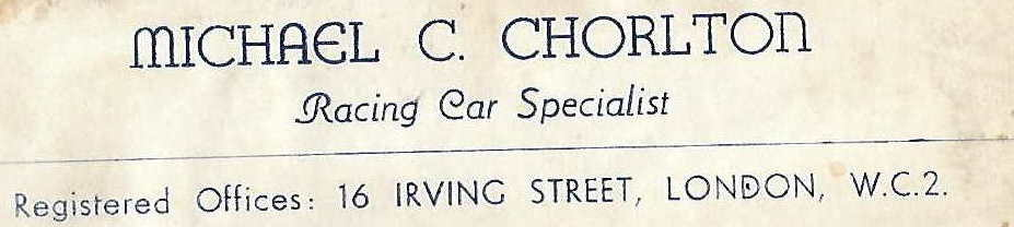 MCC's official London company letterhead from 1947